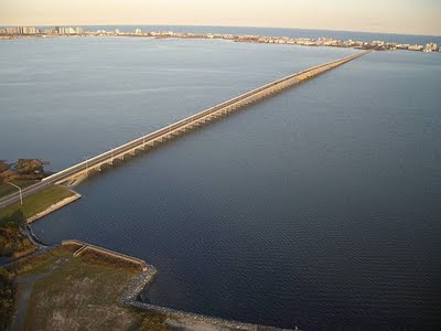 Aerial view of Assawoman Bay Bridge.